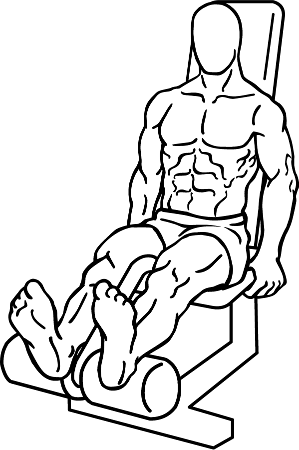 an exercise of thigh